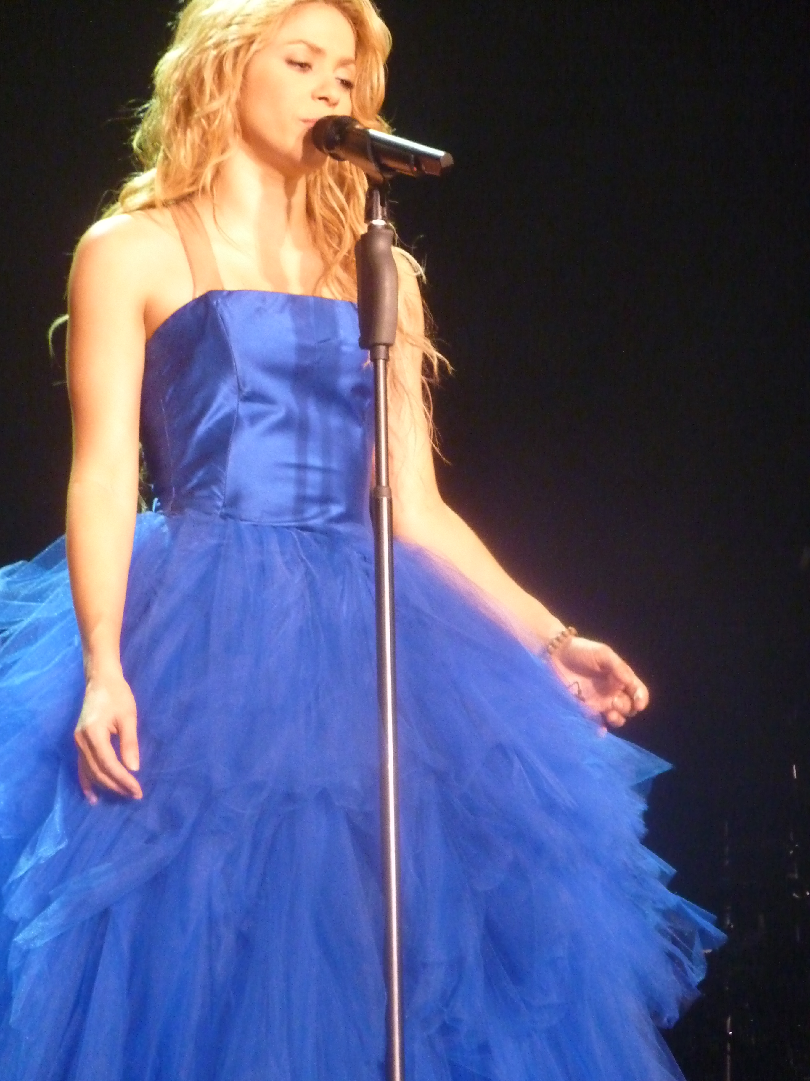 Shakira in concert in Palais Omnisports de Paris-Bercy, Paris in 2010.